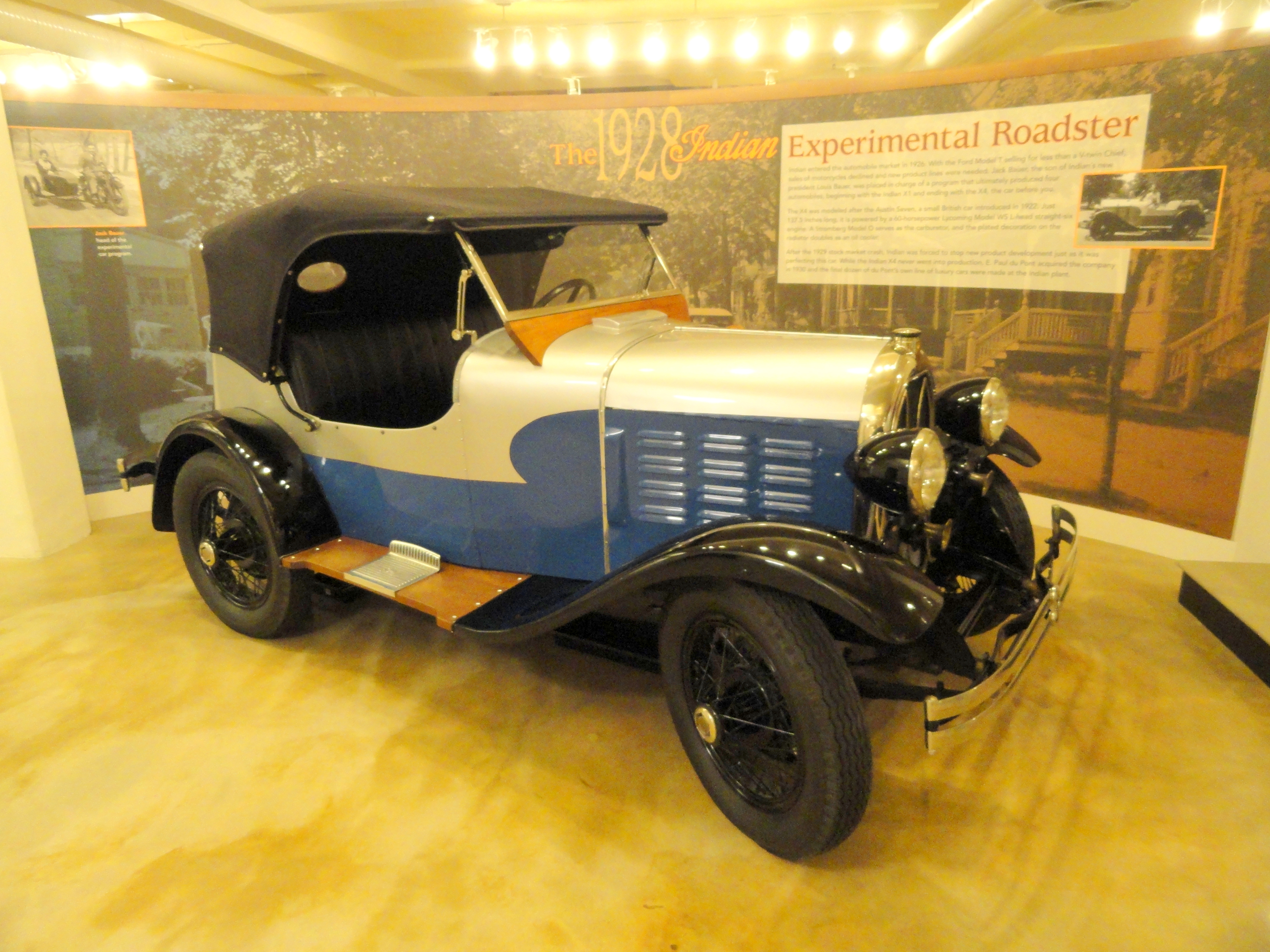 Exhibit in the Lyman & Merrie Wood Museum of Springfield History, Springfield, Massachusetts, USA. This exhibit is old enough so that it is in the public domain.